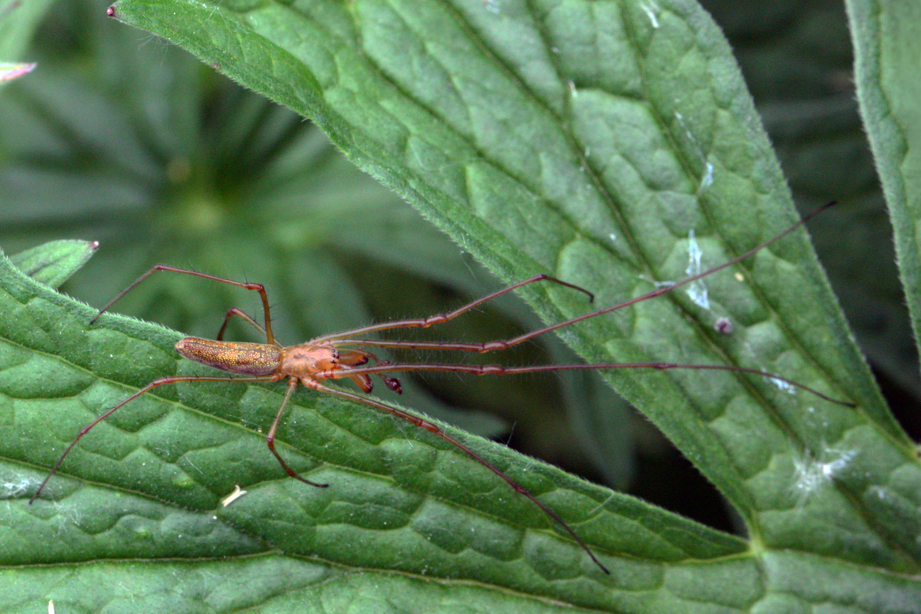 Long-jawed orb weaver - stretch spider (Tetragnatha sp.)